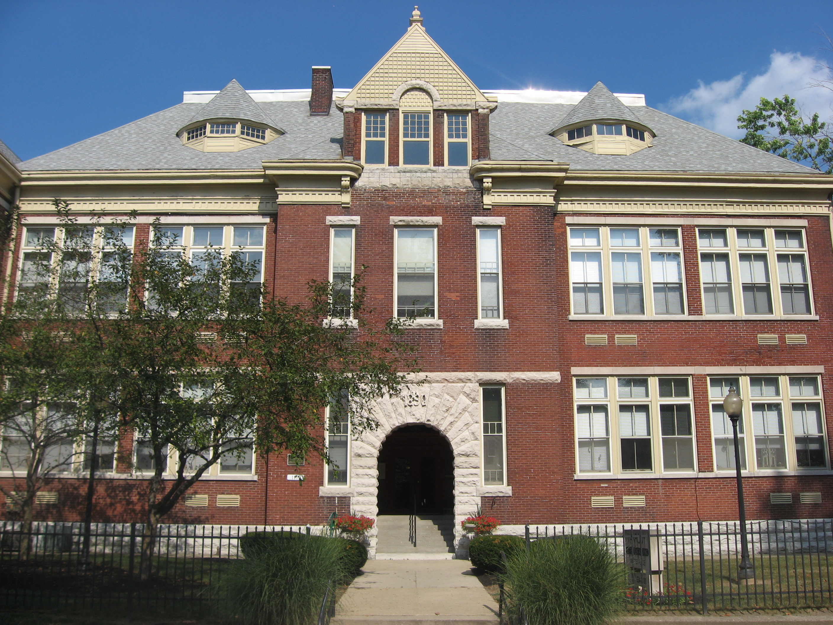 Front of the John Greenleaf Whittier School, No. 33, located at 1119 N. Sterling Street in Indianapolis, Indiana, United States. Built in 1890, it is listed on the National Register of Historic Places.